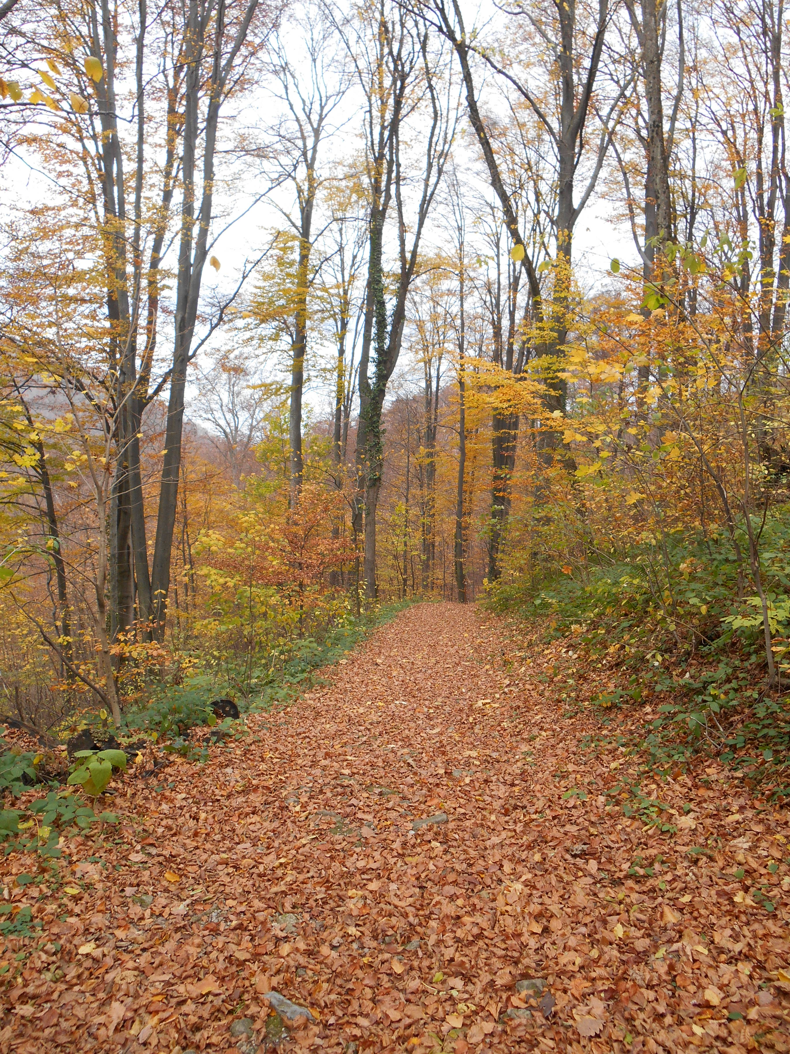 Excursion site Jankovac on Papuk mountain